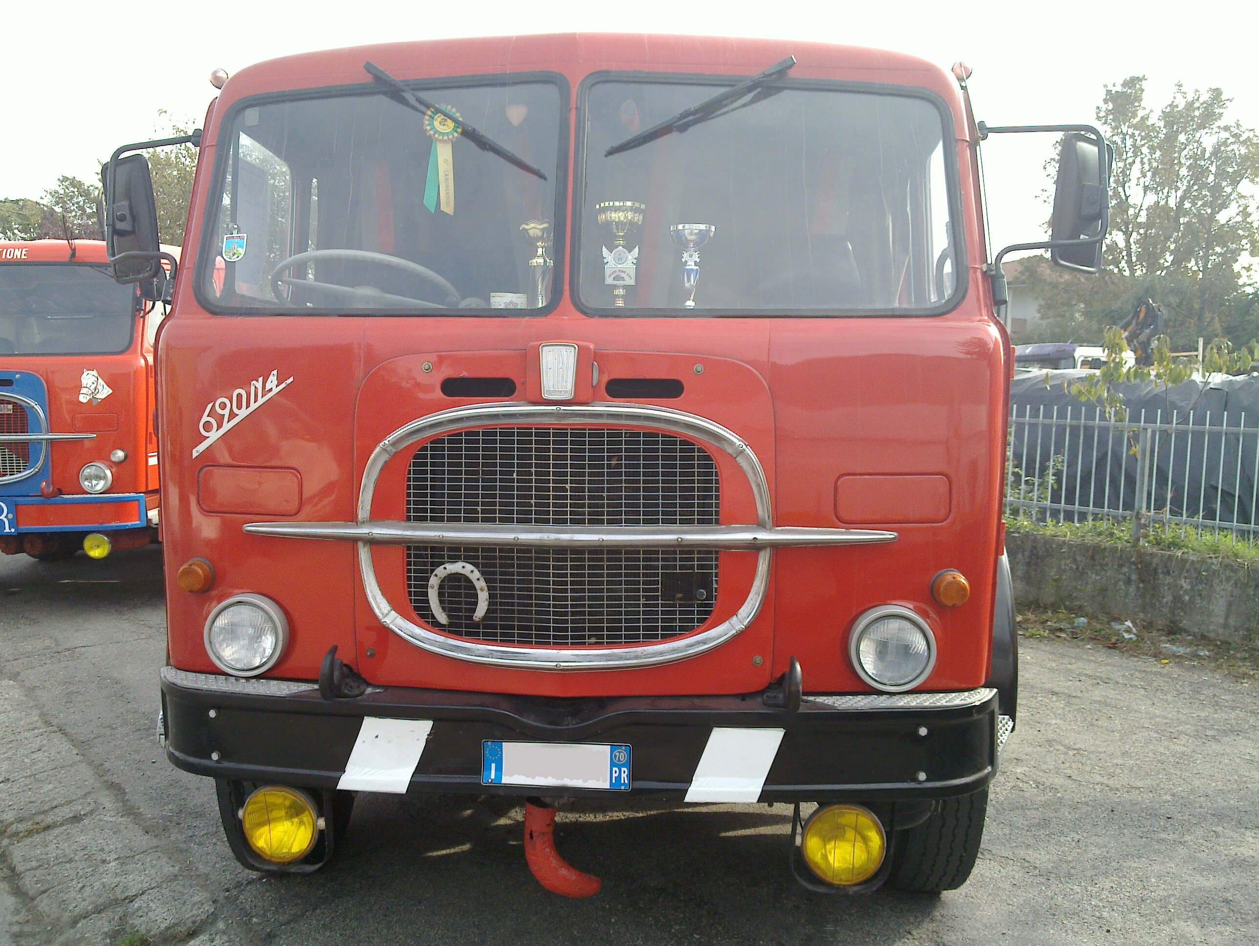 Fiat truck 690N4